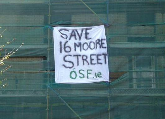 Ogra Shinn Fein banner drop on o connell stret dublin